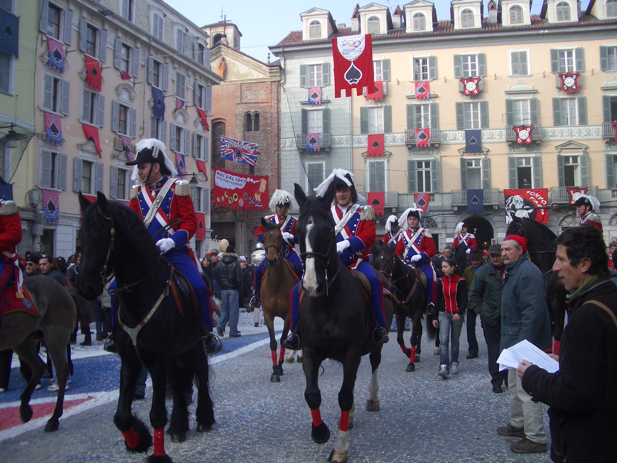 Carnival of Ivrea, Stato Maggiore (High Officers ) in Town-hall square